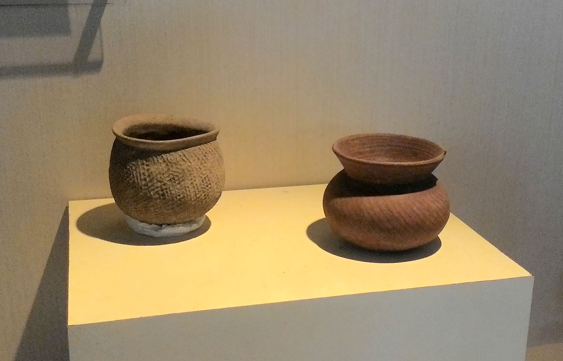 Buni culture pottery, coastal West Java c. 400 BCE to 100 CE . Collection of National Museum of Indonesia, Jakarta.